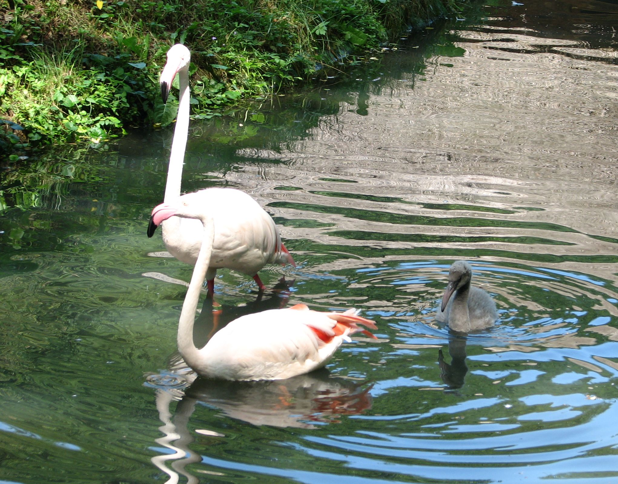 Greater Flamingo in ZOO Jihlava, Czech Republic